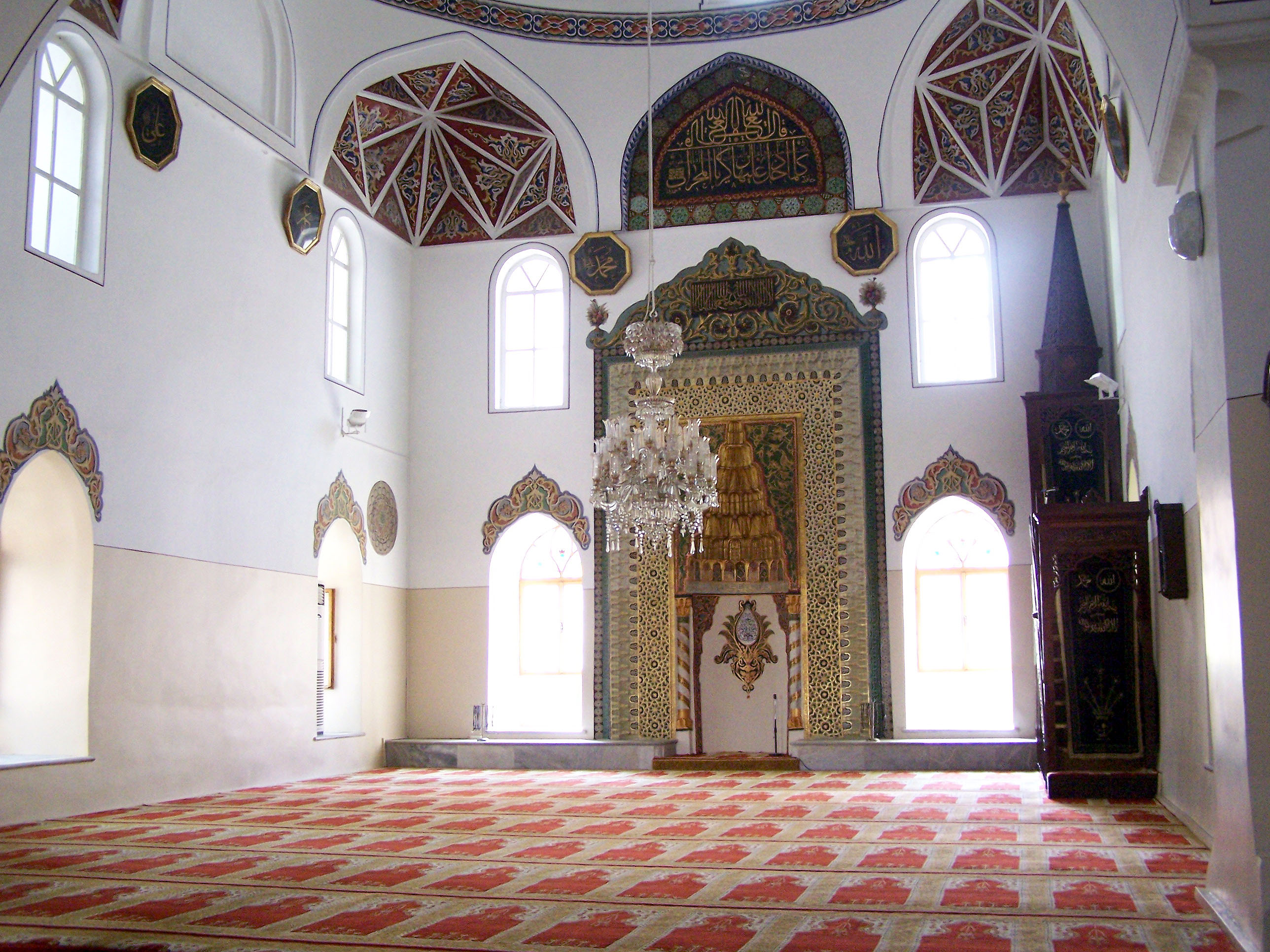 Interior of Orhan Gazi Camii in Bursa, Turkey